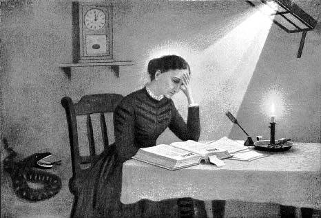 Image number three, called "Seeking and finding," in Christ and Christmas (1897) by Mary Baker Eddy